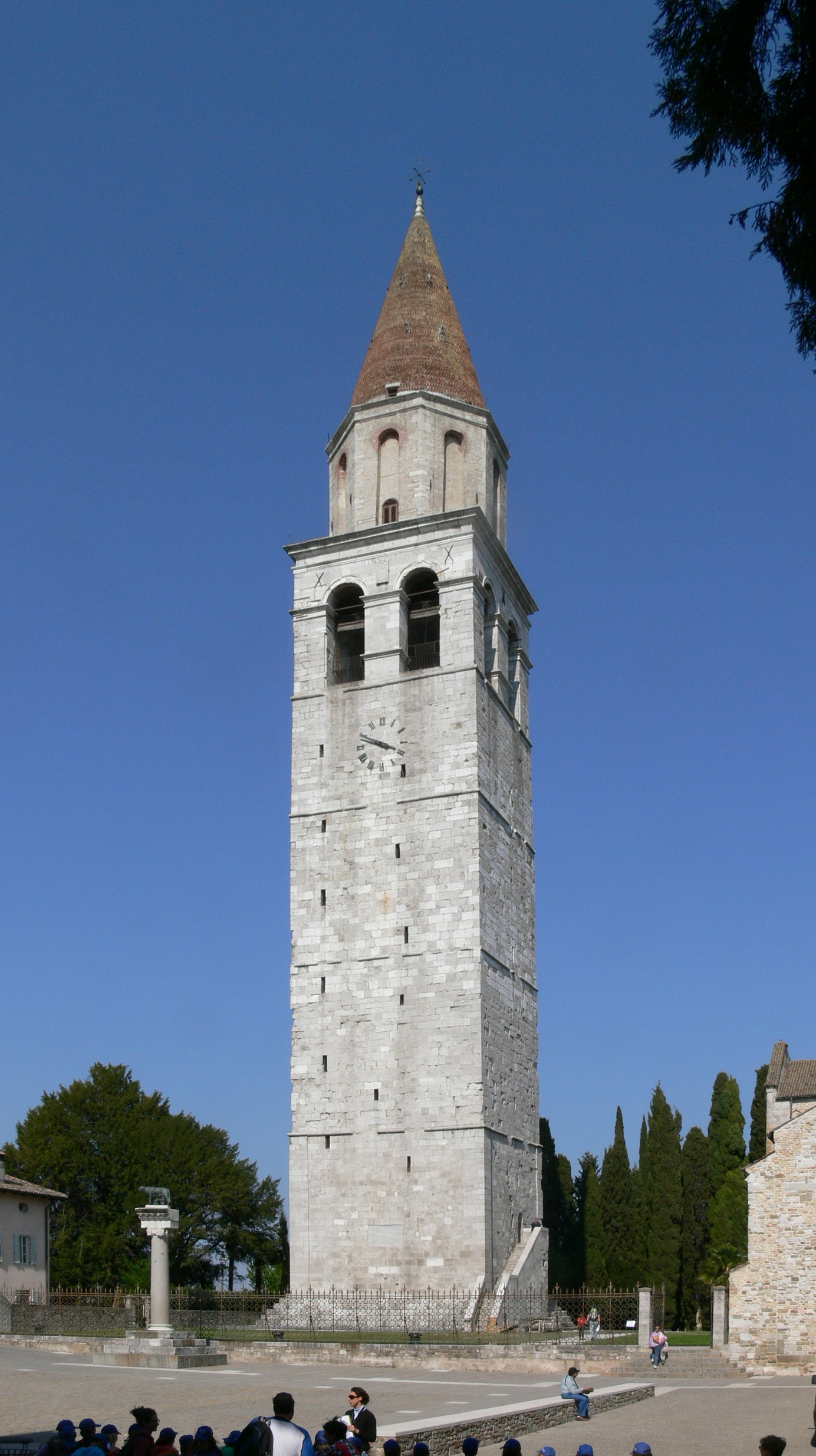 Patriarch´s basilica, Aquileia. Belltower ( 11th century ).